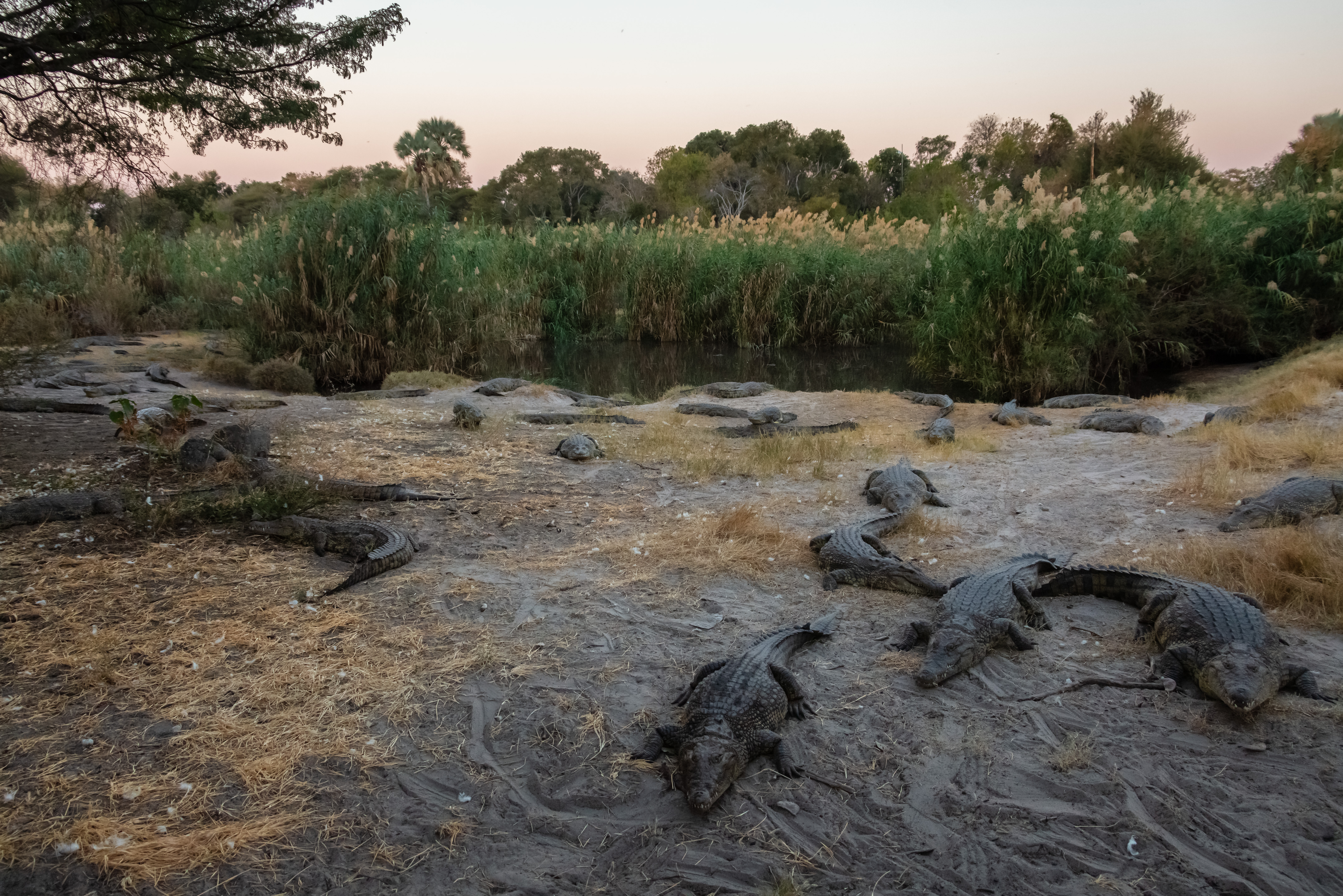 Crocodrile Farm, Maun, Botswana